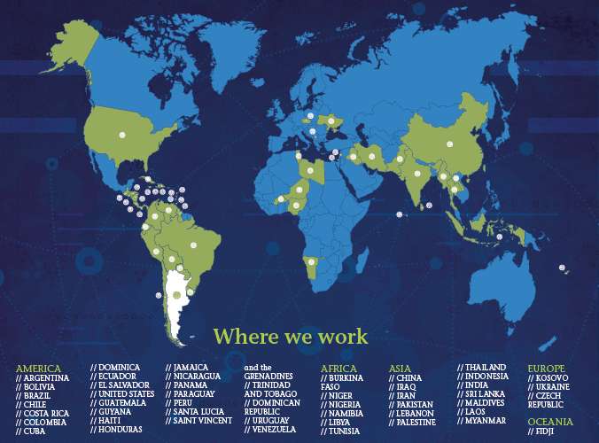 White Helmets. Where we work